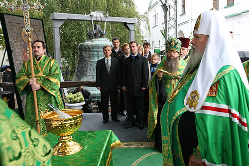 ST. DANIEL MONASTERY, MOSCOW. Prayer service to celebrate the return and consecration of the bells.